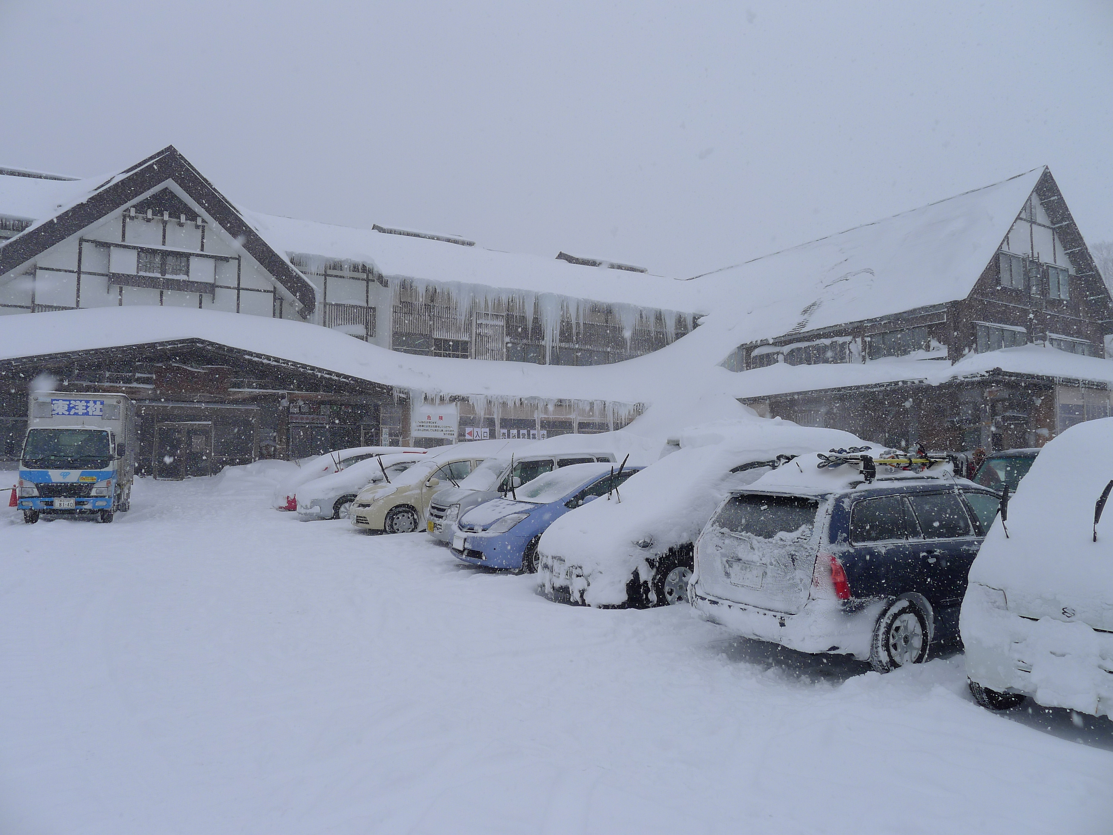 The outside of Sukayu Onsen in late December 2012.